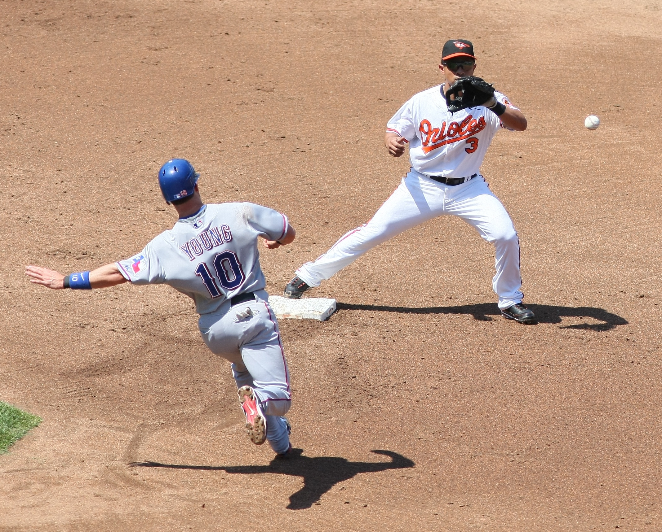 César Izturis (right) and Michael Young